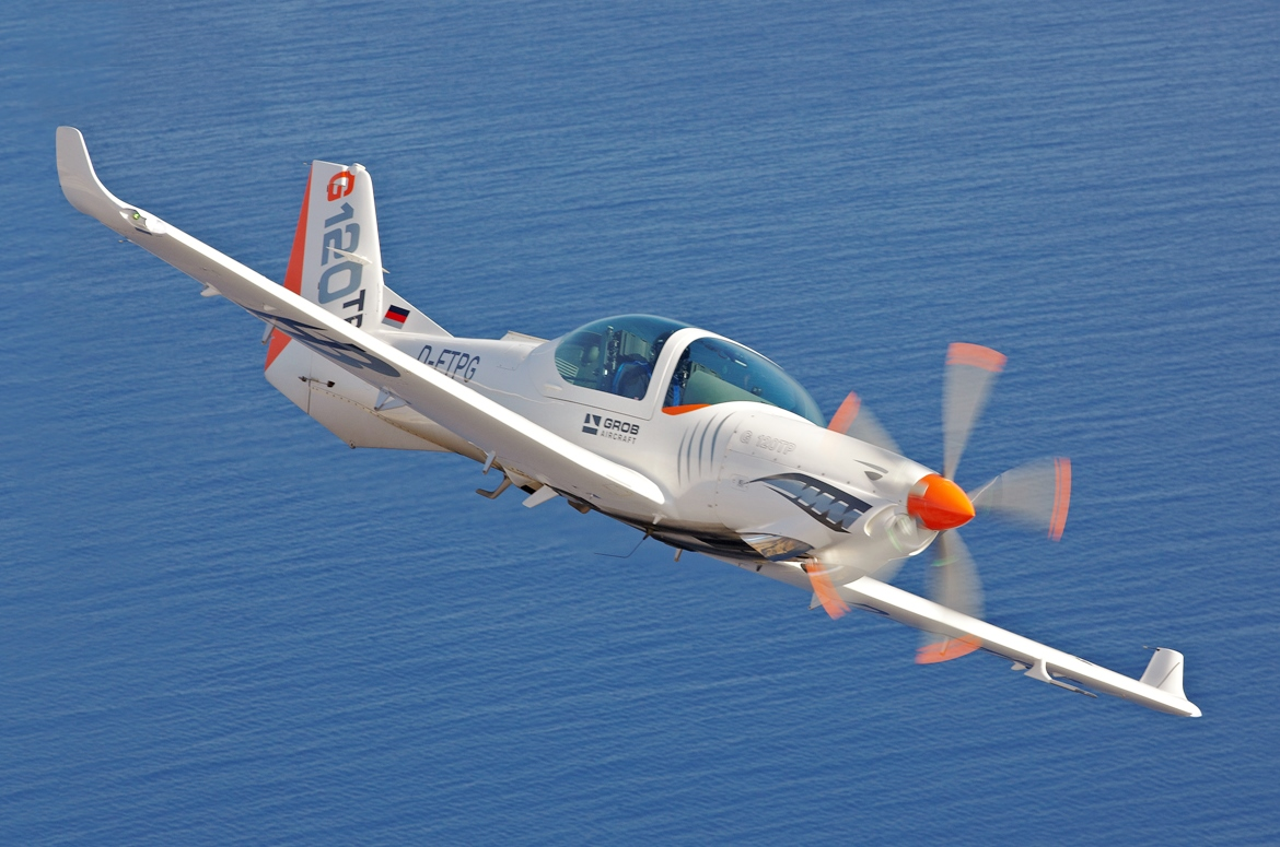 G120TP - Air-to-Air